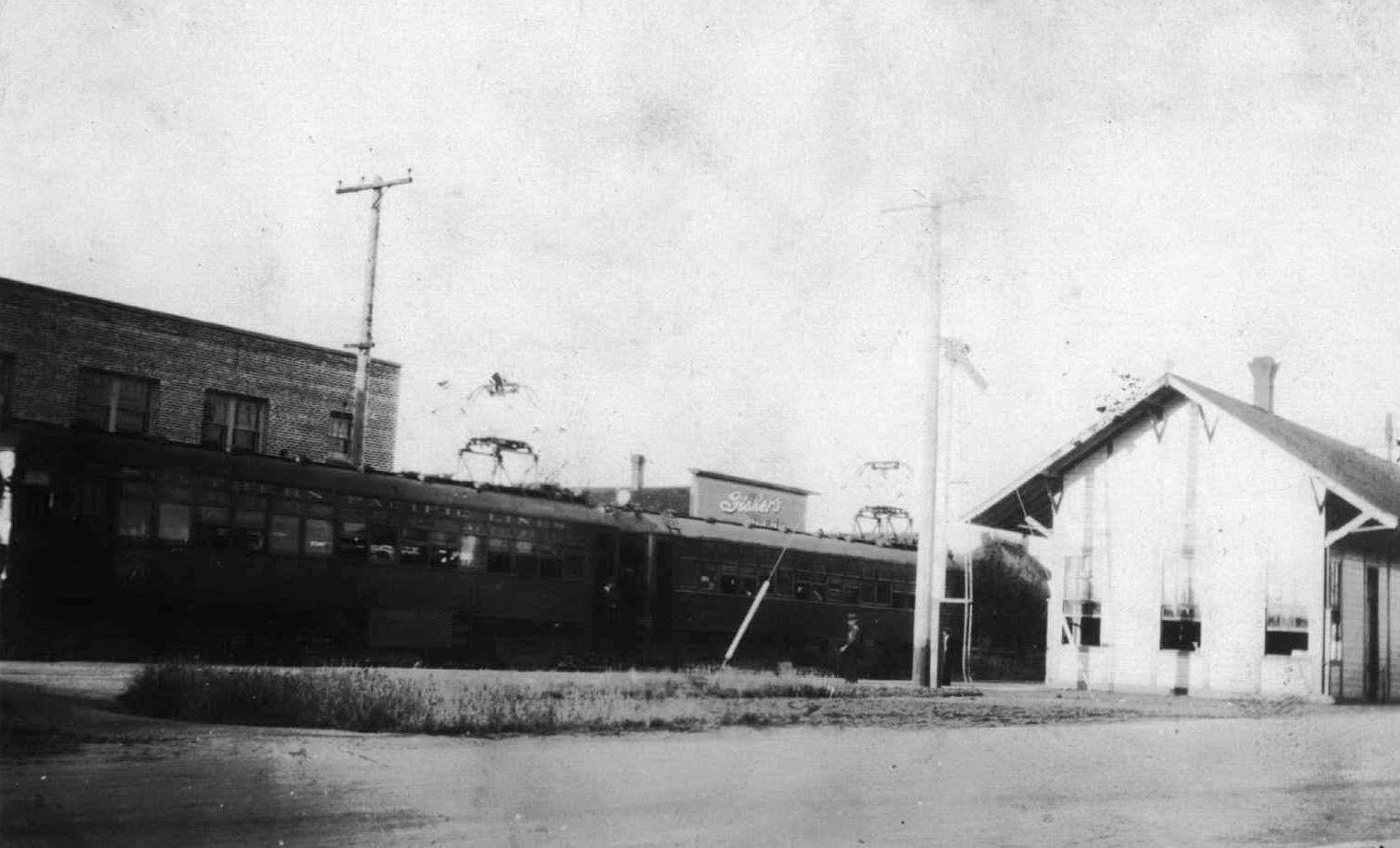 Southern Pacific Depot along Front Street. Historical images of Beaverton, Oregon. Until the 1920, this was served by SP's Red Electric interurbans.